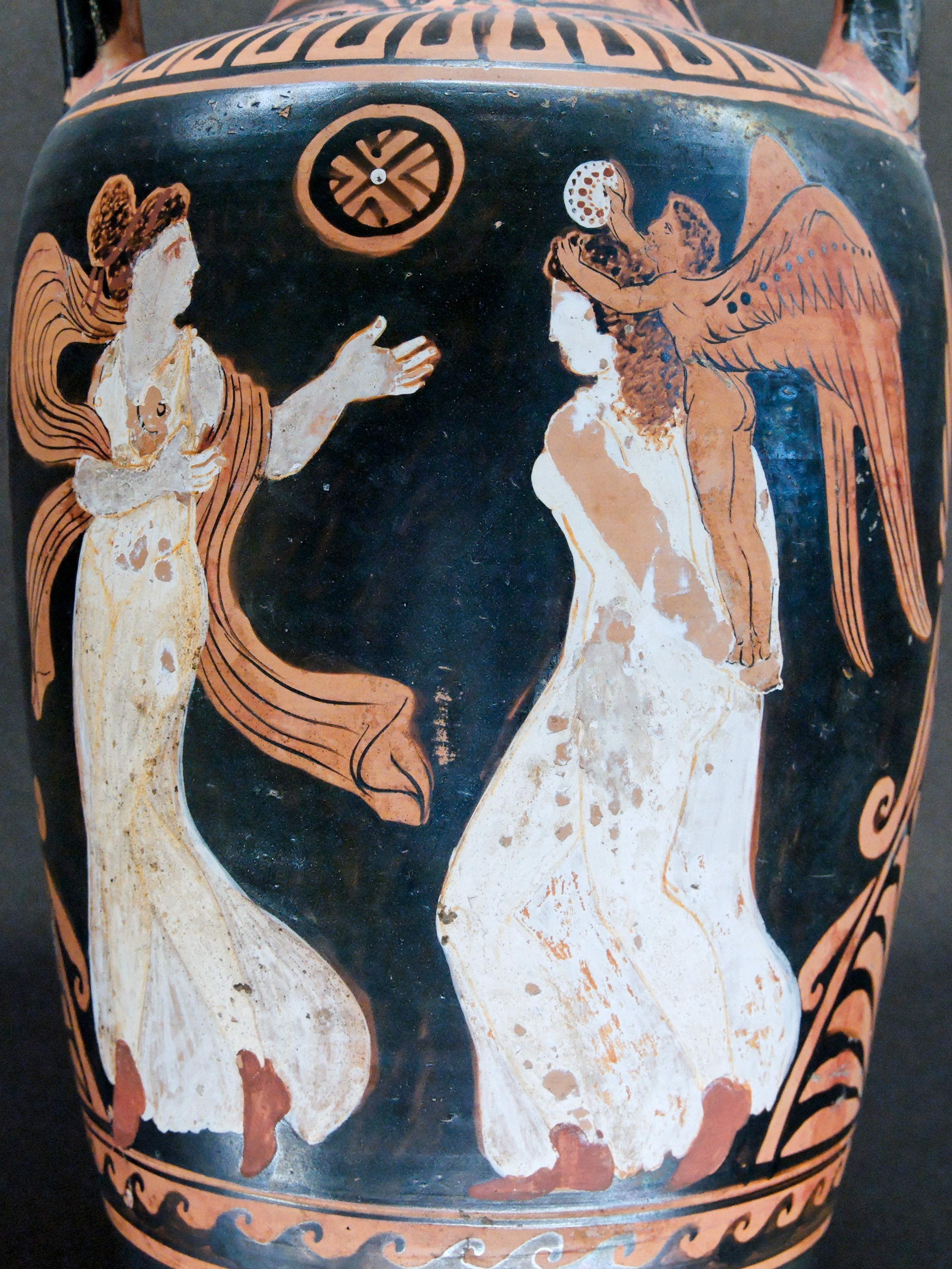 Two women and Eros playing the ephedrismos game. Side A of a Campanian red-figure neck-amphora, ca. 330 BC.